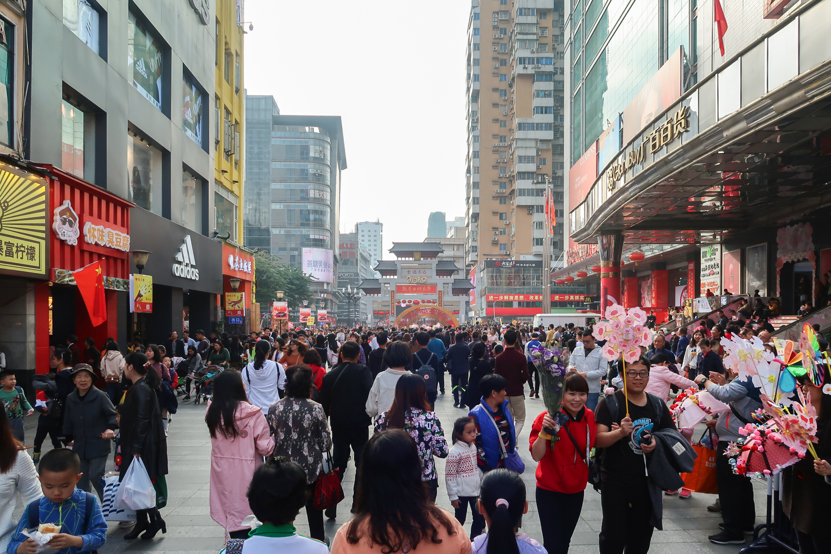 Xihu Lu during Chinese new year